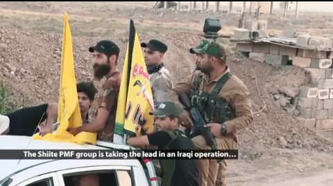 Popular Mobilization Forces during Hawija Battle